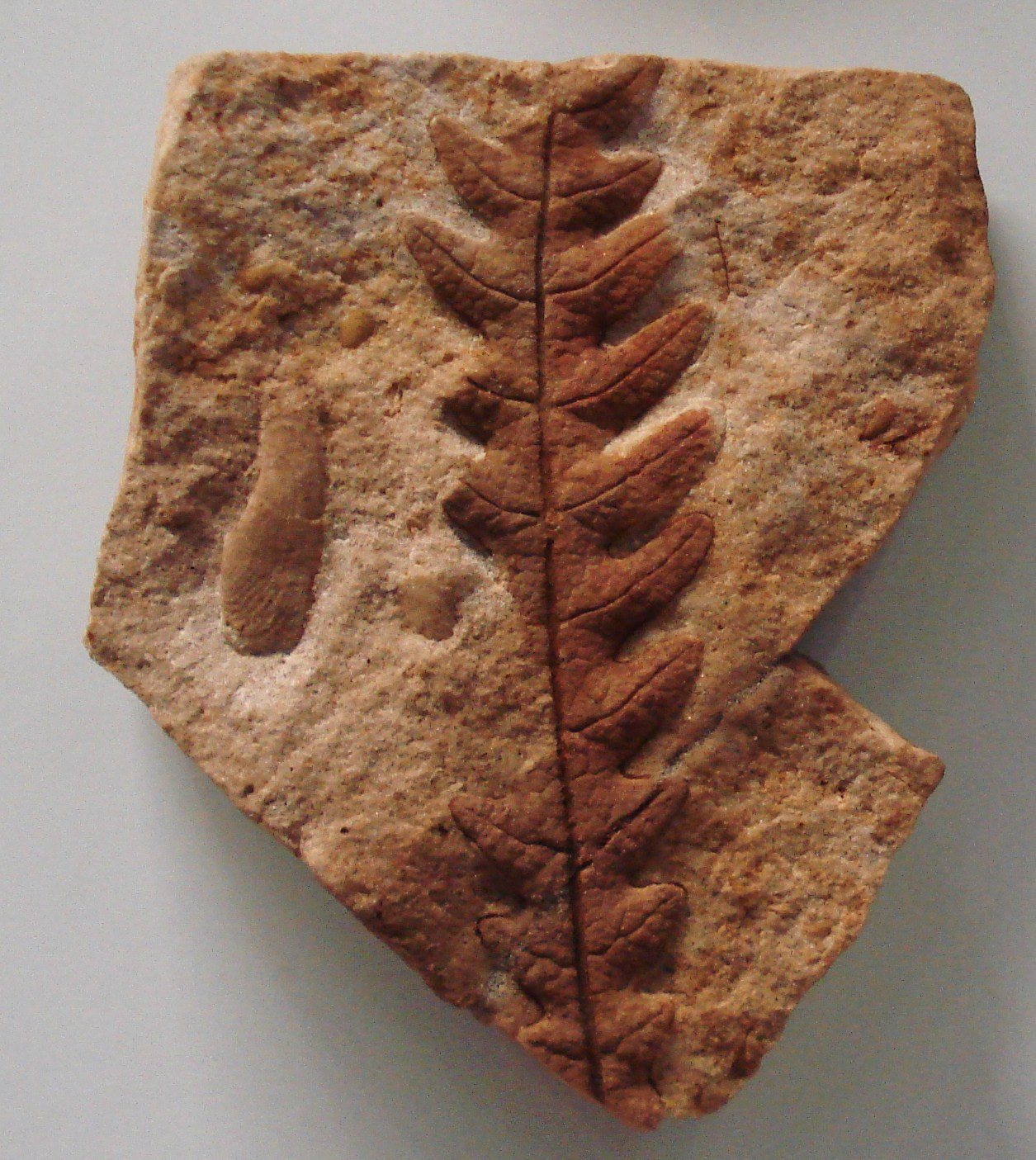 fossil of dictyophyllum